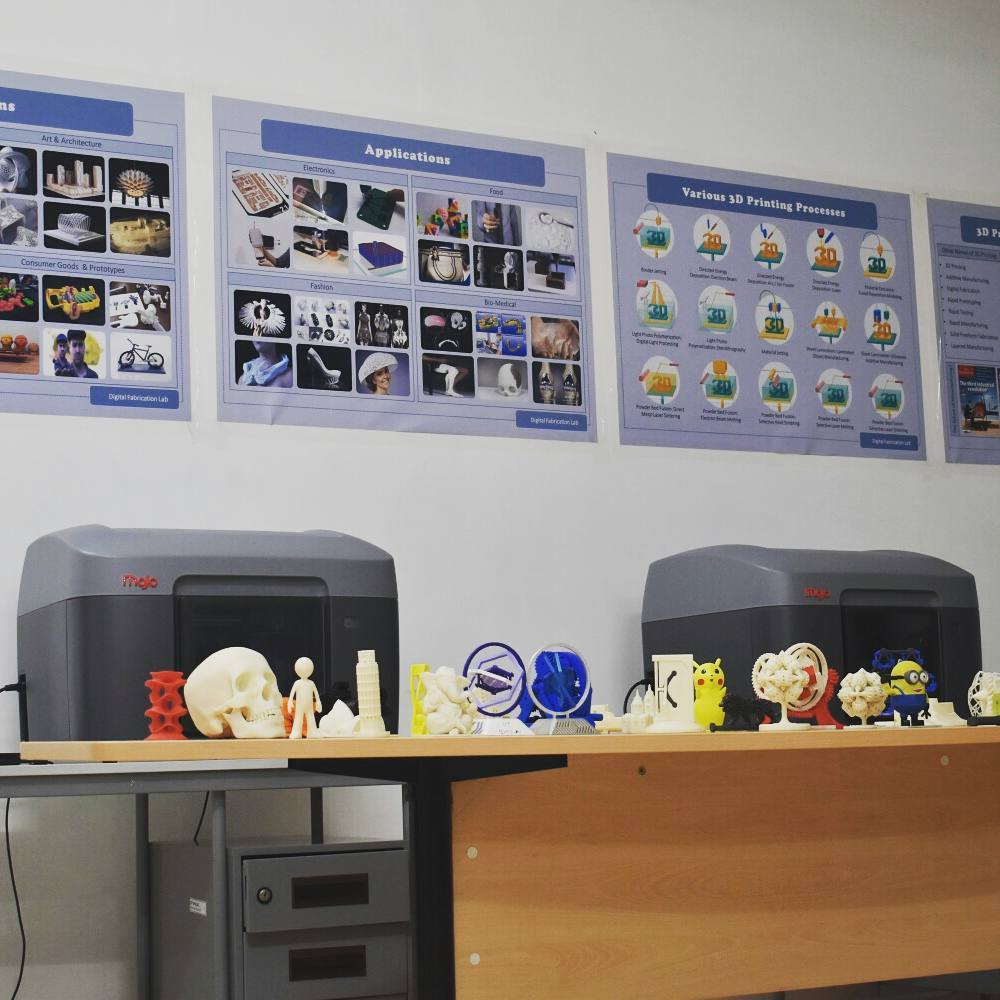 The picture is of the Digital Fabrication Lab at IIT Bhilai. The image shows 2 3D printers in the background of student-made 3D printed models